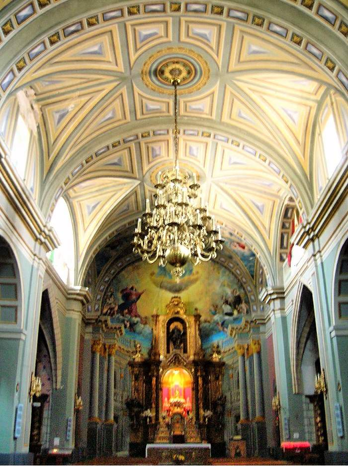 Santuario de la Virgen de la Peña, Calatayud